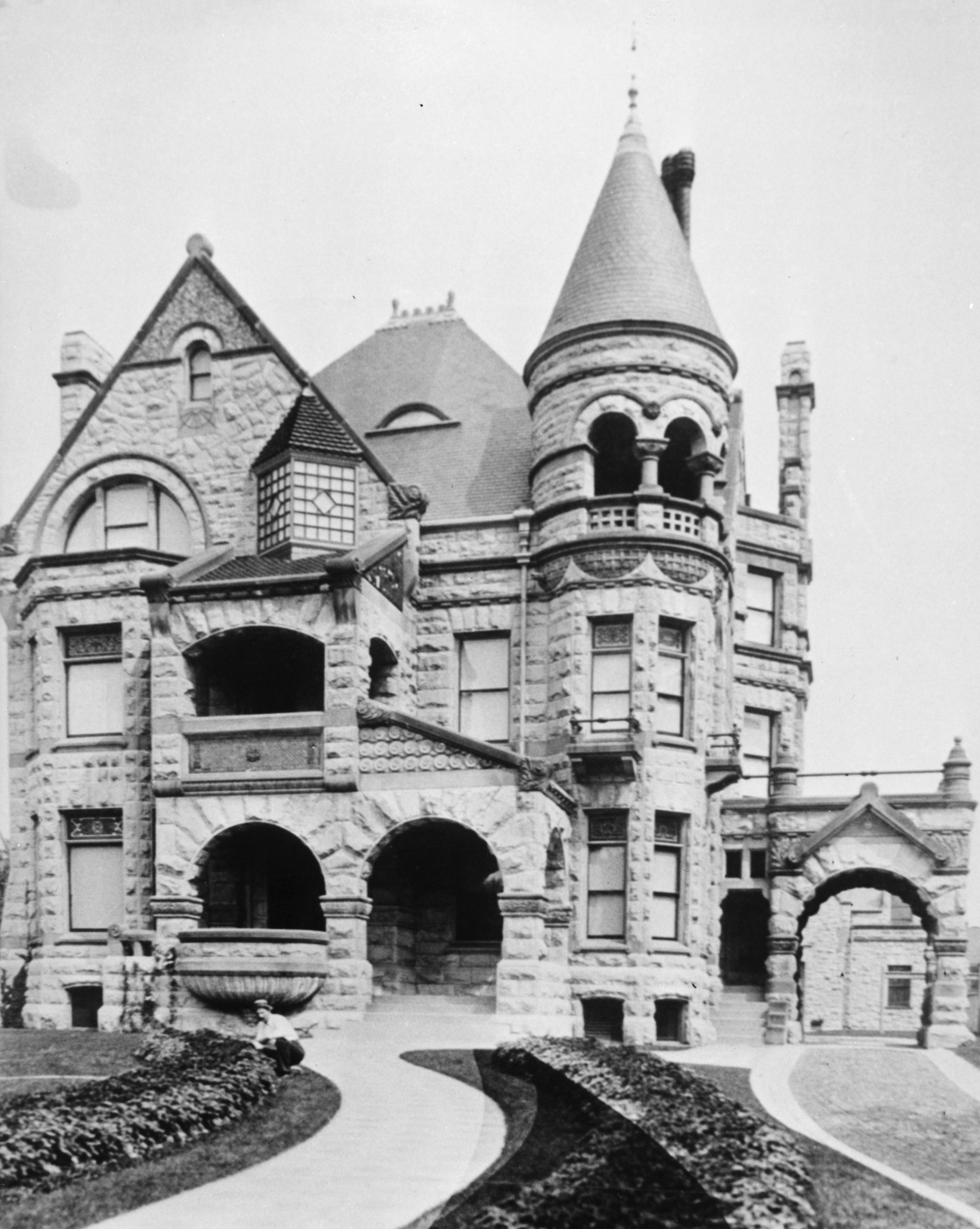 Elizabeth Plankinton House crop